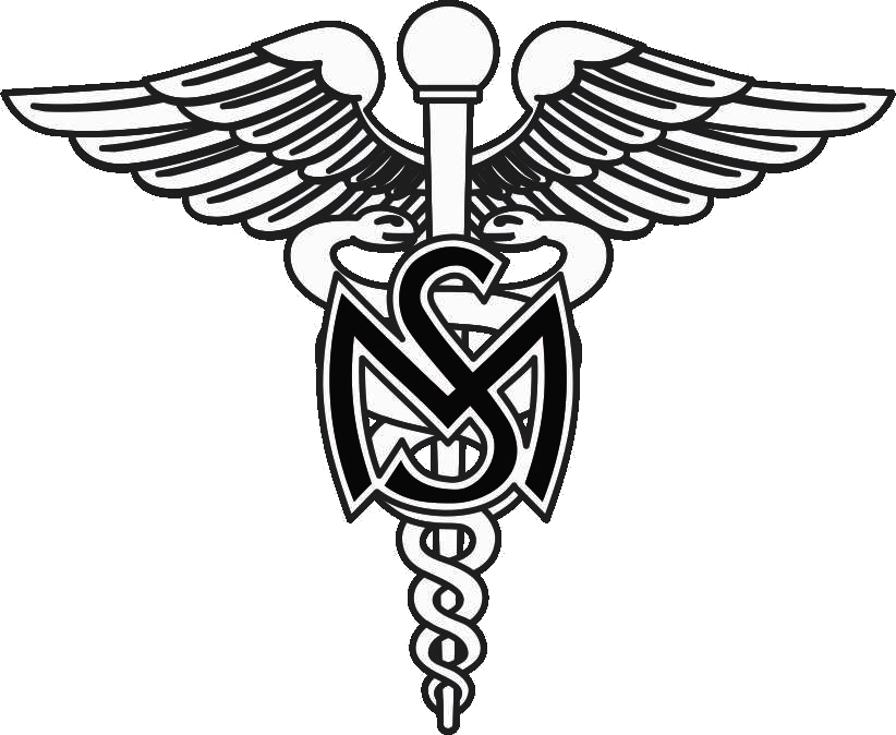 United States Army Service Corps Branch Insignia